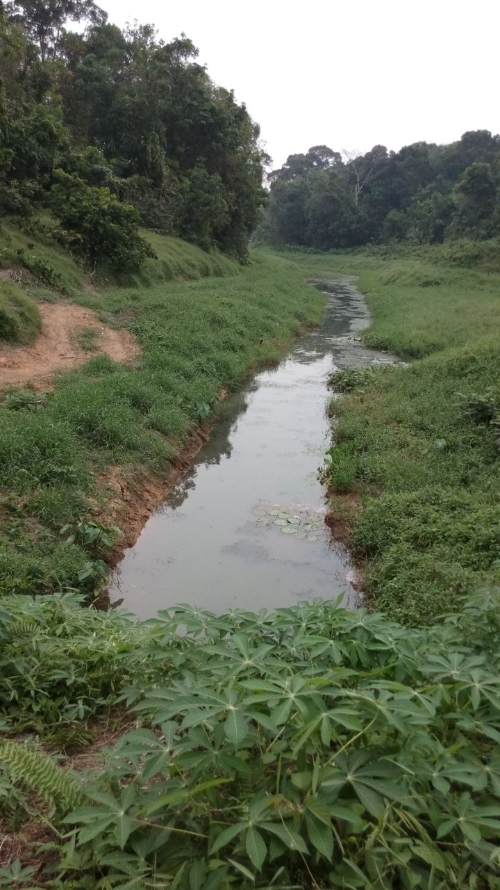 A small stream in South East Asia.